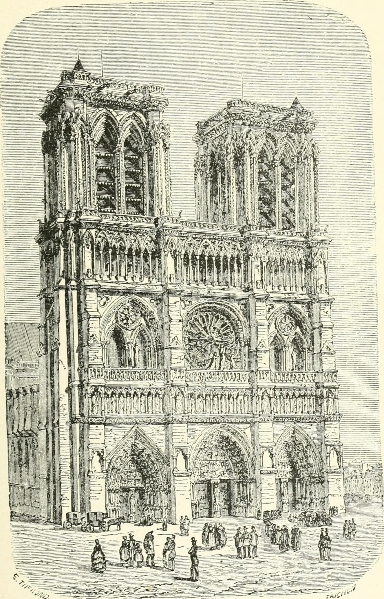 Title: The story of architecture: an outline of the styles in all countries Year: 1896 (1890s) Authors: Mathews, Charles Thompson, 1863- Subjects: Architecture -- History Publisher: New York, D. Appleton and company Text Appearing Before Image: Flu. 133.—Rose window of the thirteenth century in the northerntransept of Notre Dame, Paris. carried the arches, some of whose shafts shot sheerinto the air, then burst into slender stalks supportingthe pointed vault. A long arcaded gallery, with closely neighbouredopenings, filled the second story, each arch often con- Text Appearing After Image: Plate XLI.—Facade and towers of Notre Dame, Paris. 334 THE GOTHIC STYLE.